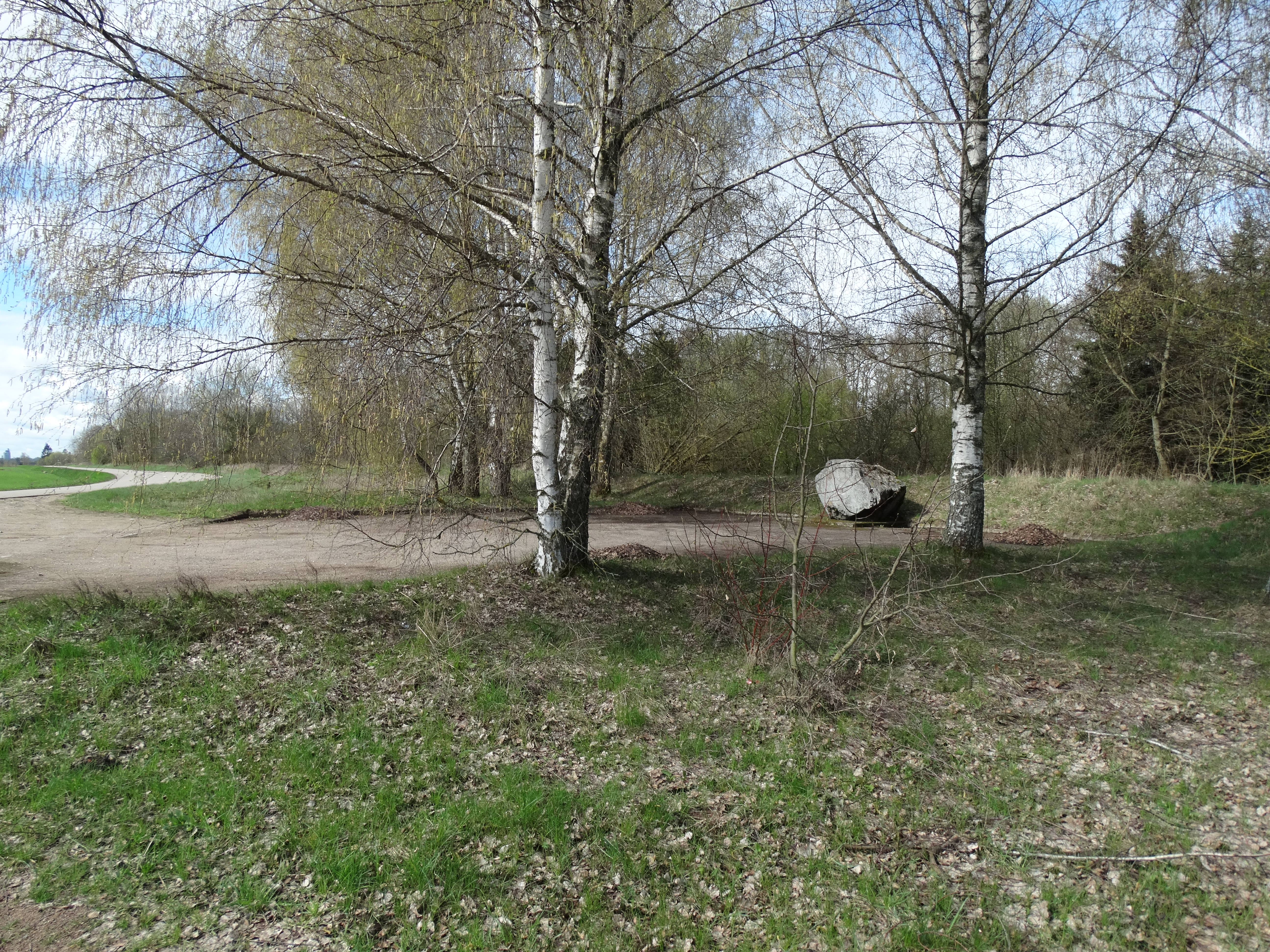 Stone in Darsūniškis, Kaišiadorys district, Lithuania